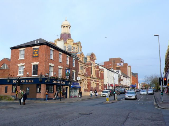 Junction of York Rd, Sidwell St and Summerland St, Exeter View NE along Sidwell St with York Rd on the left and Summerland St on the right. The ornate building on the left is the Methodist Church and the top of its hall can be seen behind the Duke of York pub.